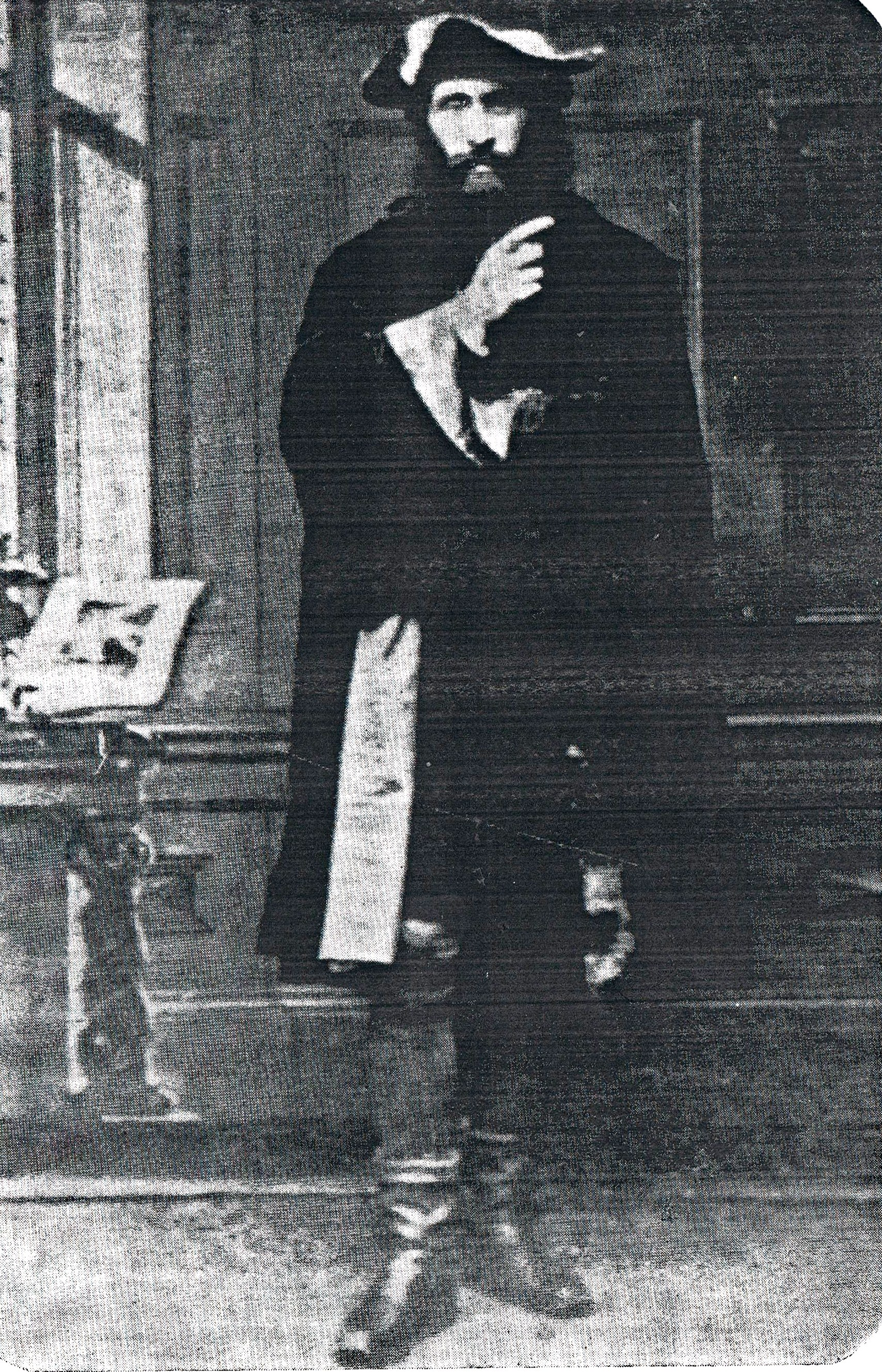 Photograph